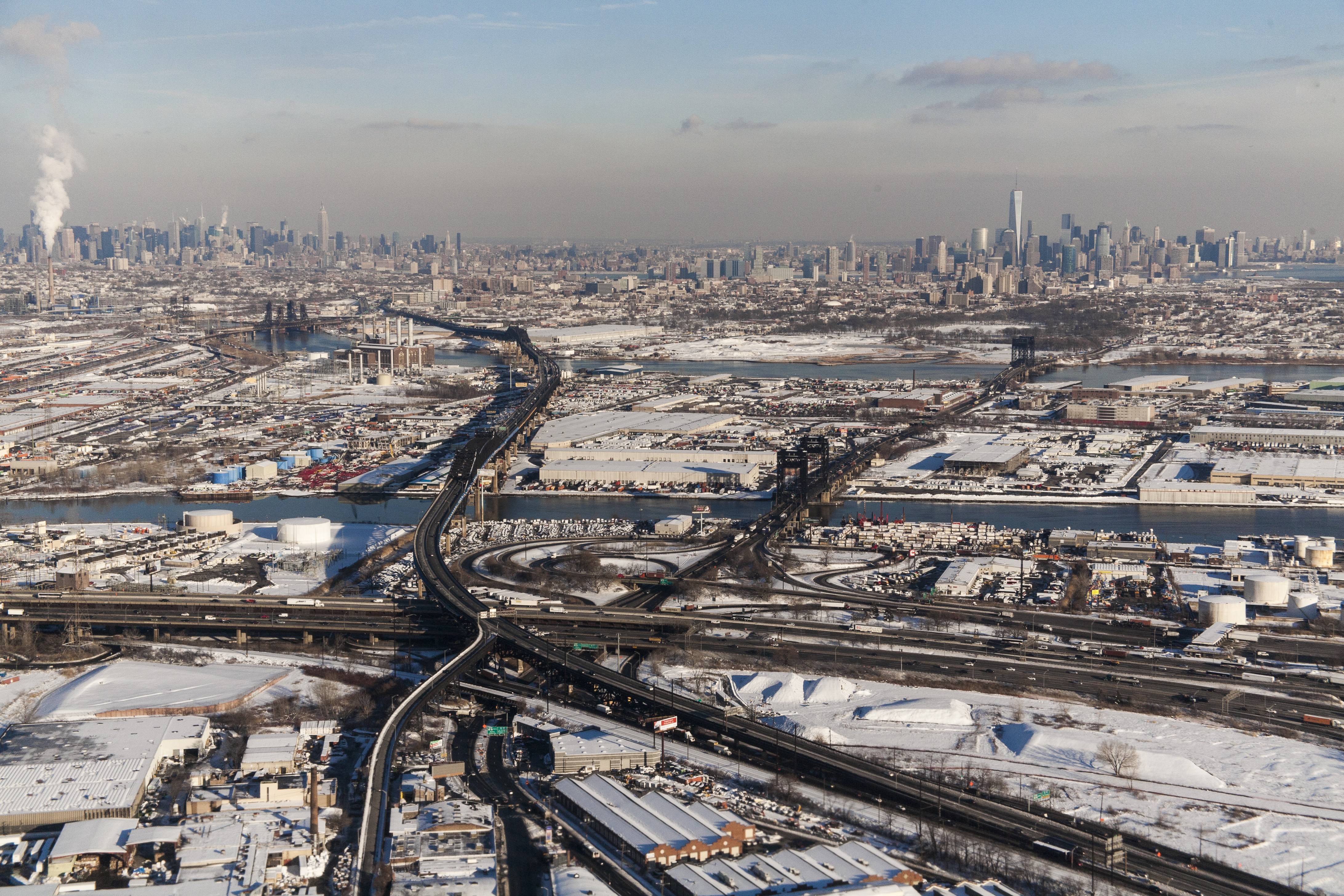 Looking up the Pulaski Skyway, where it crosses the New Jersey Turnpike in the eastern edge of Newark, New Jersey. The skyway and the Lincoln Highway (with its two black bridges) cross both the Passaic and Hackensack Rivers. Both the Midtown and Downtown Manhattan skylines are on the horizon.